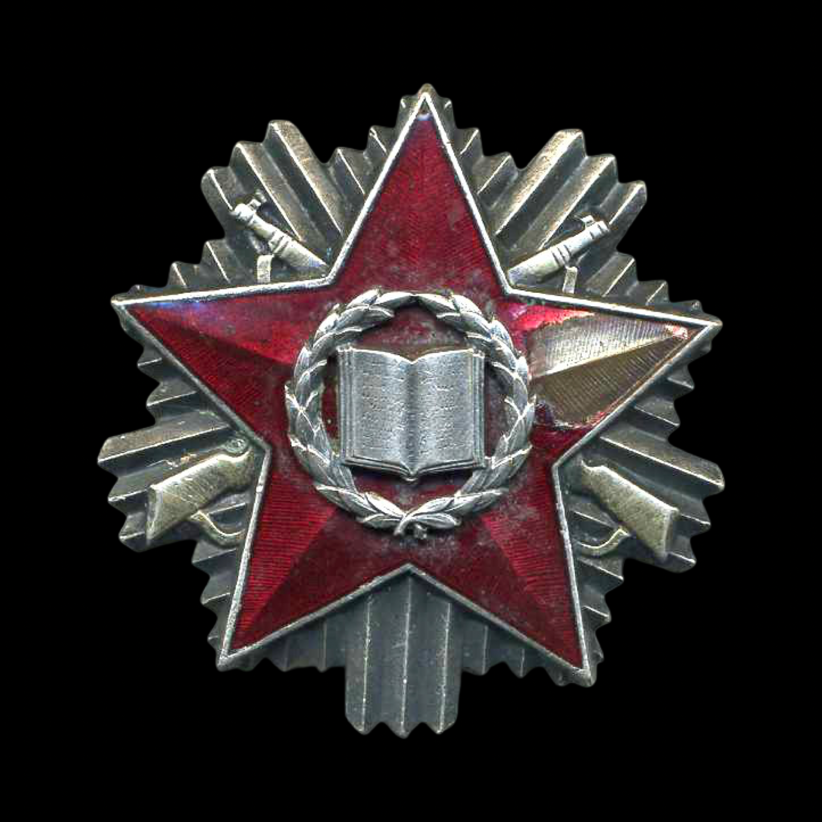 Albanian Order of Military Service, Class II.